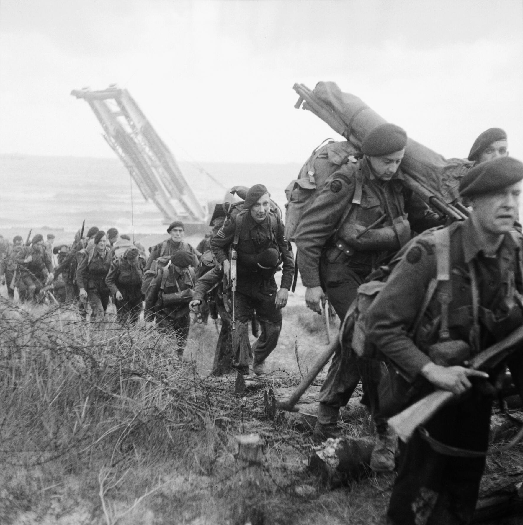 Royal Marine Commandos attached to 3rd Division move inland from Sword Beach on the Normandy coast, 6 June 1944. Royal Marine Commandos attached to 3rd Division for the assault on Sword Beach move inland, 6 June 1944. A Churchill bridgelayer can be seen in the background.